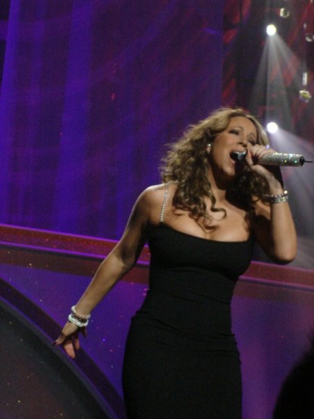 I personally took this photo from the front row when Mariah performed in Las Vegas in 2009.